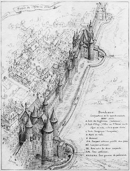 Les fortifications de Bordeaux au 13e siècle. Dessin à la plume de Léo Drouyn